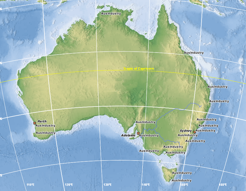 Used the KML file here: and loaded it into a Marble map. The map itself was created using NASA data (in the public domain), the Australian government info is under the Attribution 3.0 Australia (CC BY 3.0 AU) license. Slight smudge south of the Tropic of Capricorn near the center, as I erased/smudged the word "Australia" from the map...